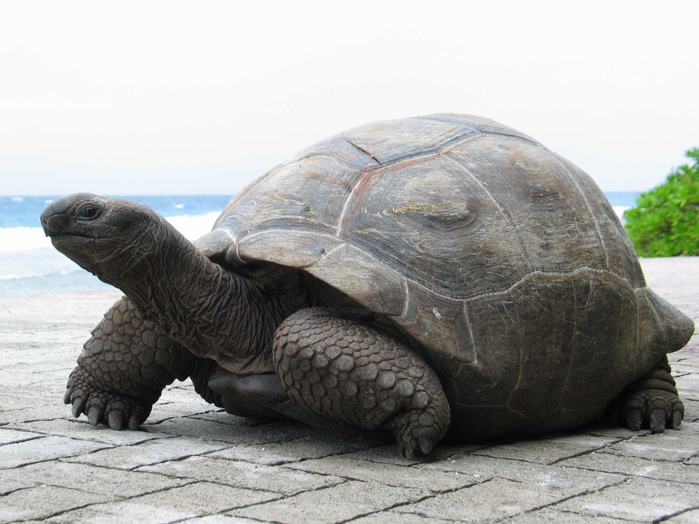 An Aldabra giant tortoise on La Digue Island, Seychelles. Some tortoises were moved to La Digue Island from Aldabra Island.